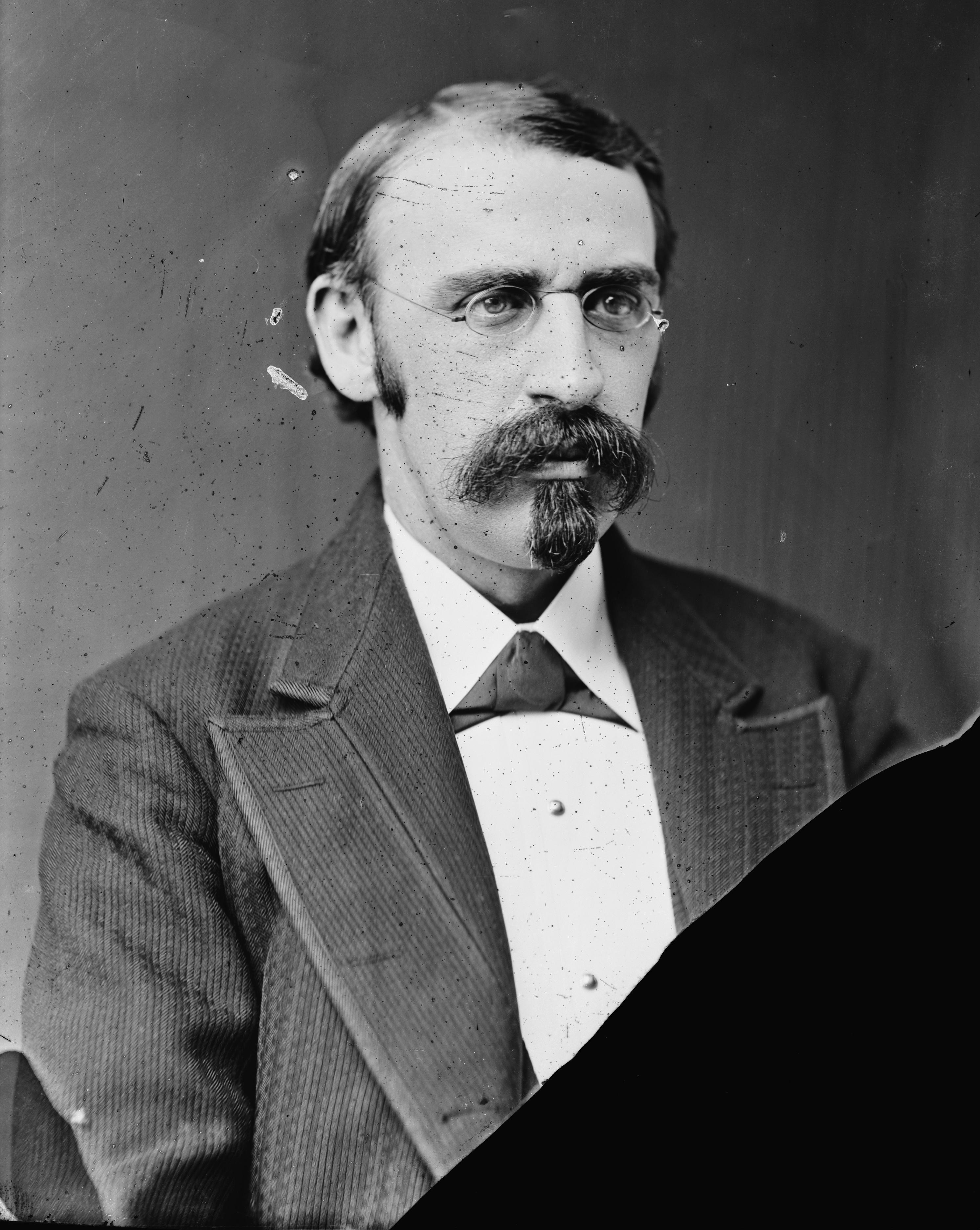 Edmund William McGregor Mackey. Library of Congress description: "Mackey, Hon. Edmund Wm. of S.C.".